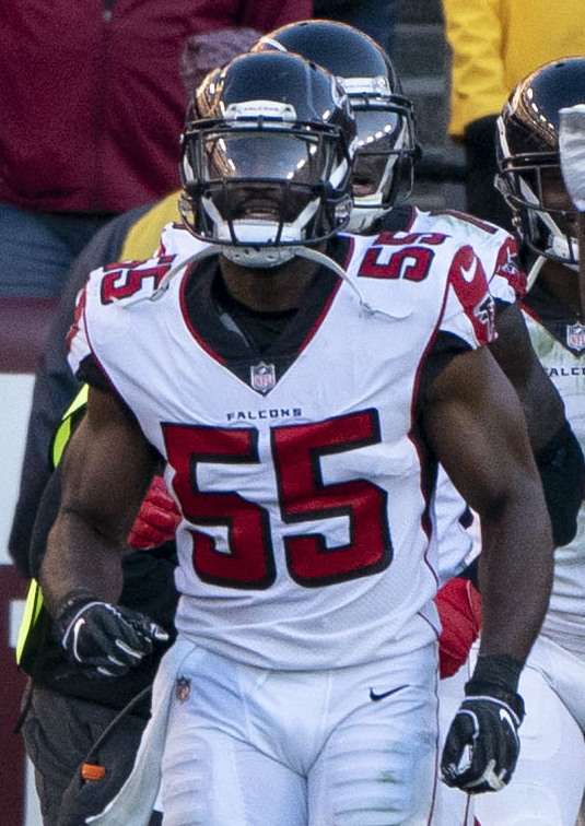 Members of the Atlanta Falcons on the field at FedExField in November of 2018